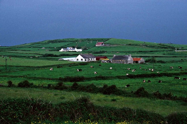 Hill side at Doonbeg. Stormy sky with the white cottages catching the sun at Doonbeg.